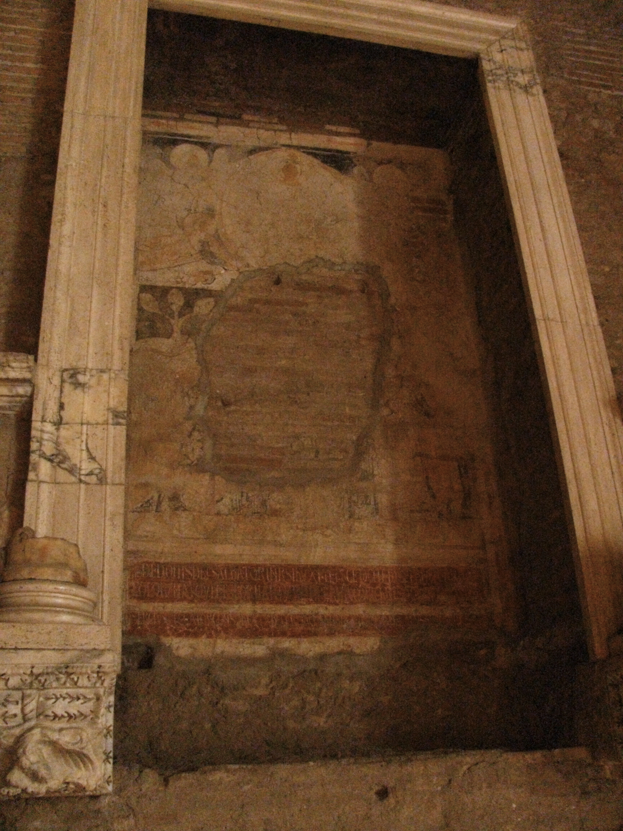 AWIB-ISAW: Curia Julia (I) Wall painting and aedicula in the Curia Julia on the Forum Romanum. by Allison Kidd (2011) copyright: 2011 Allison Kidd (used with permission) photographed place: Roma (Rome) Published by the Institute for the Study of the Ancient World as part of the Ancient World Image Bank (AWIB). Further information